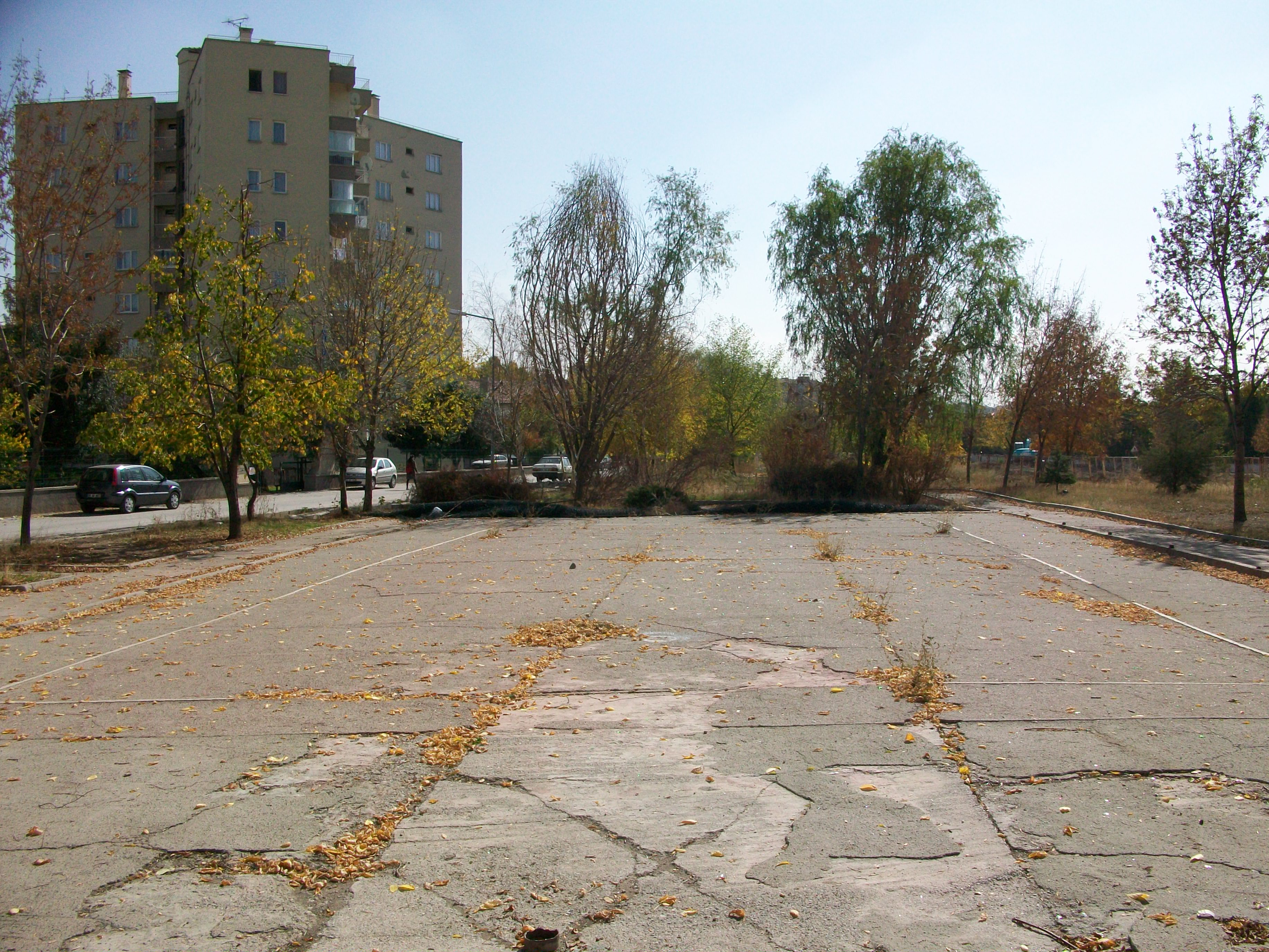 Batıkent, Yenimahalle district of AnkaraTürkçe: Ankara'nın Yenimahalle ilçesindeki Batıkent.